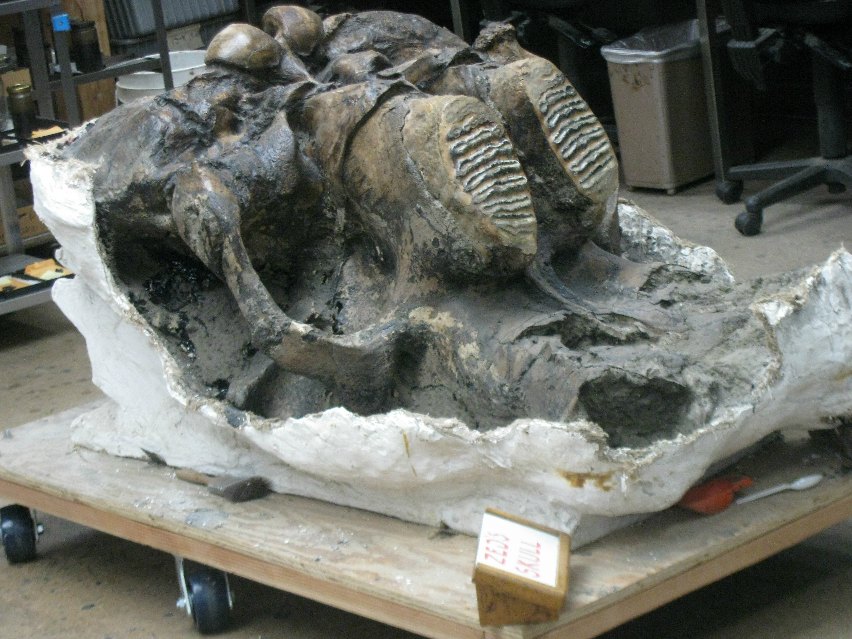 A Columbian mammoth recently found near-complete in the tar pits.